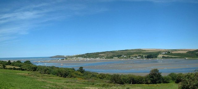 The Teifi Estuary Looking from the Poppit road towards the Teifi Estuary with Gwbert in the distance.